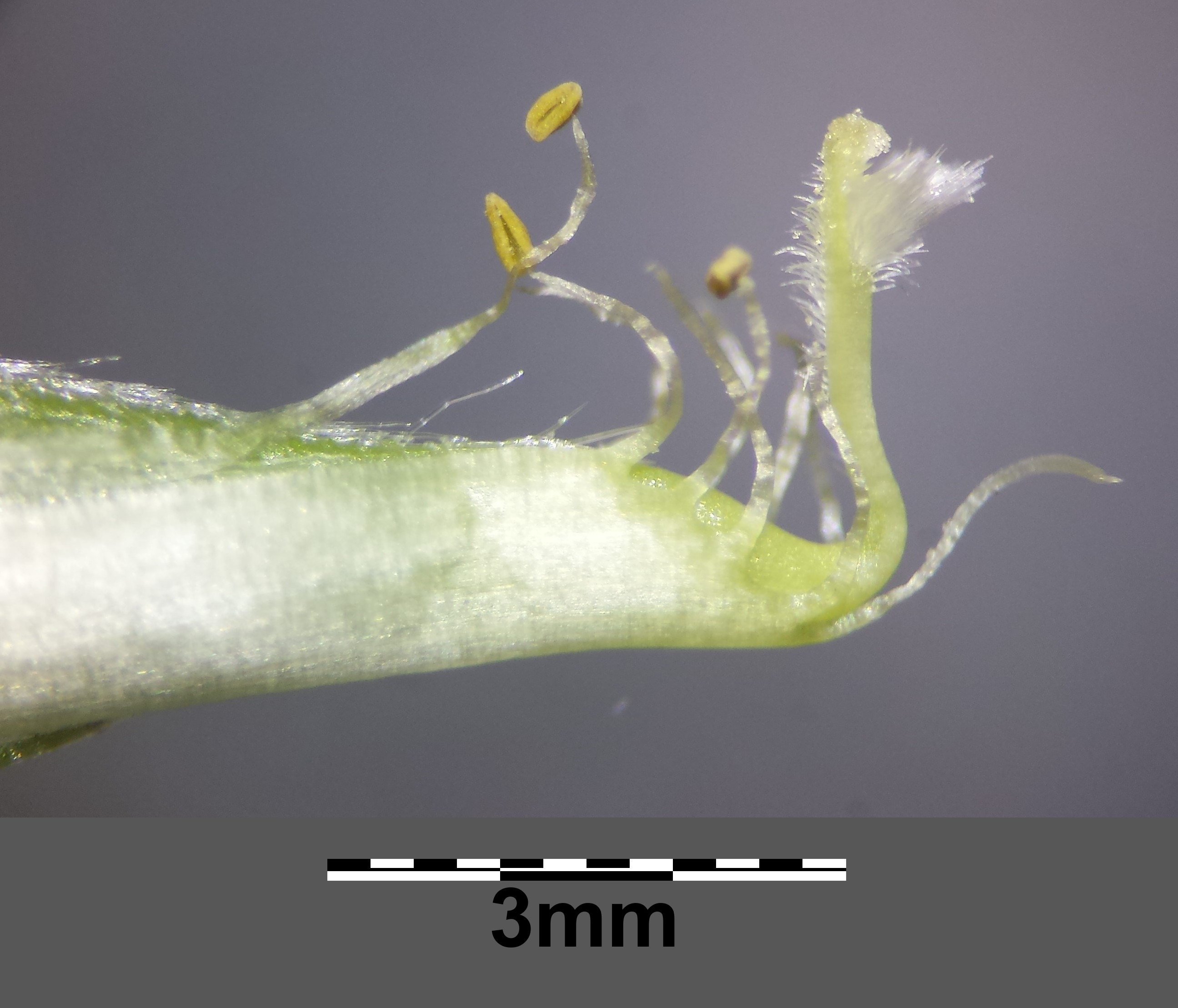 Fused stamens and stylus Taxonym: Vicia lutea ss Fischer et al. EfÖLS 2008 ISBN 978-3-85474-187-9 Location: Korneuburg rail station, district Korneuburg, Lower Austria - ca. 170 m a.s.l. Habitat: ruderal meadows